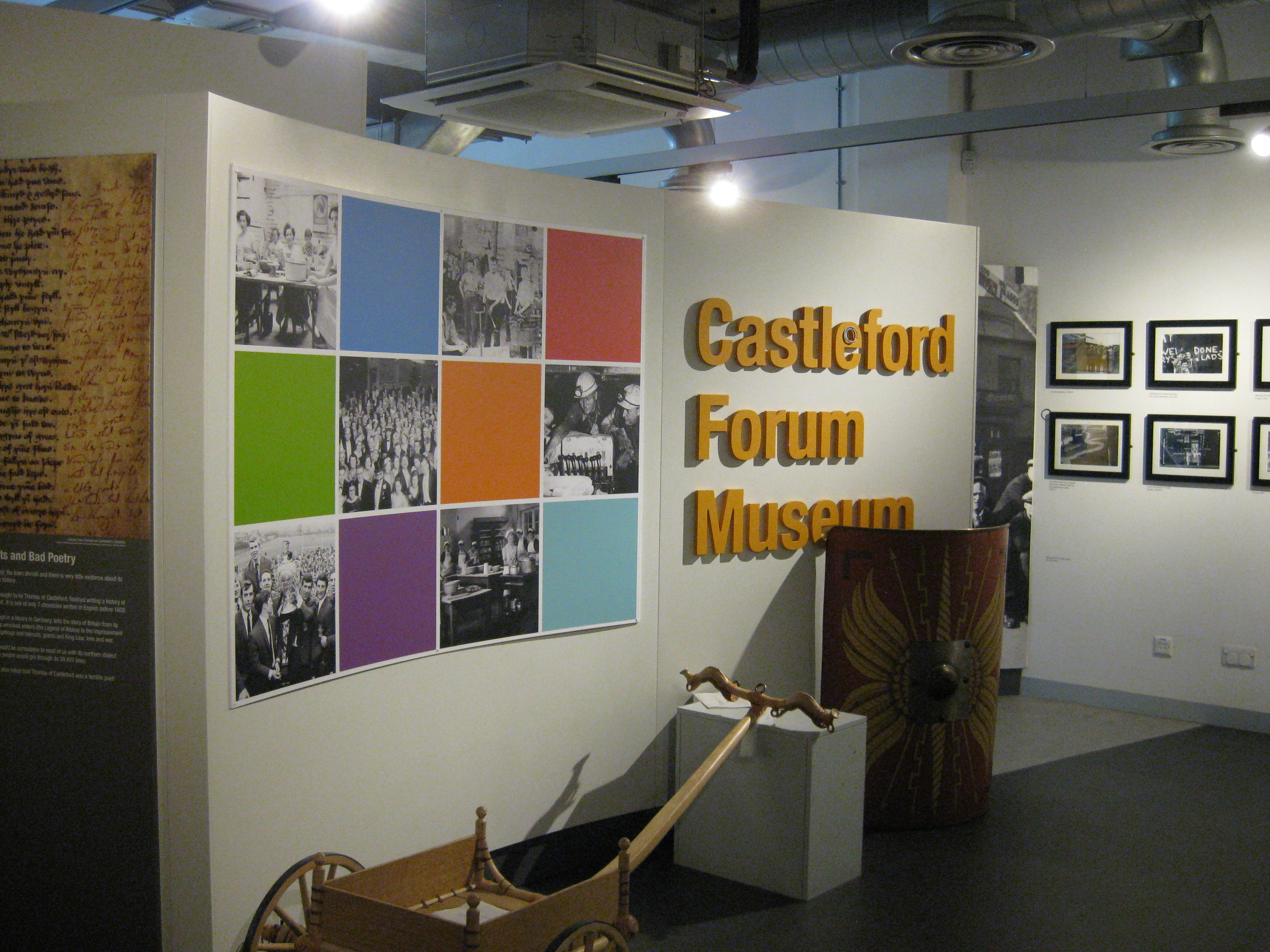 Entry to the Castleford Forum Museum in the Castleford Library and Museum building, Carlton St, Castleford WF10 1BB. Shows a reproduction Roman shield and cart.